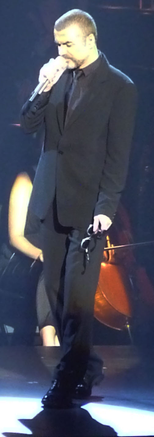 George Michael at the Palais Nikaia (Nice, France) in 2011, for Symphonica: The Orchestral Tour.